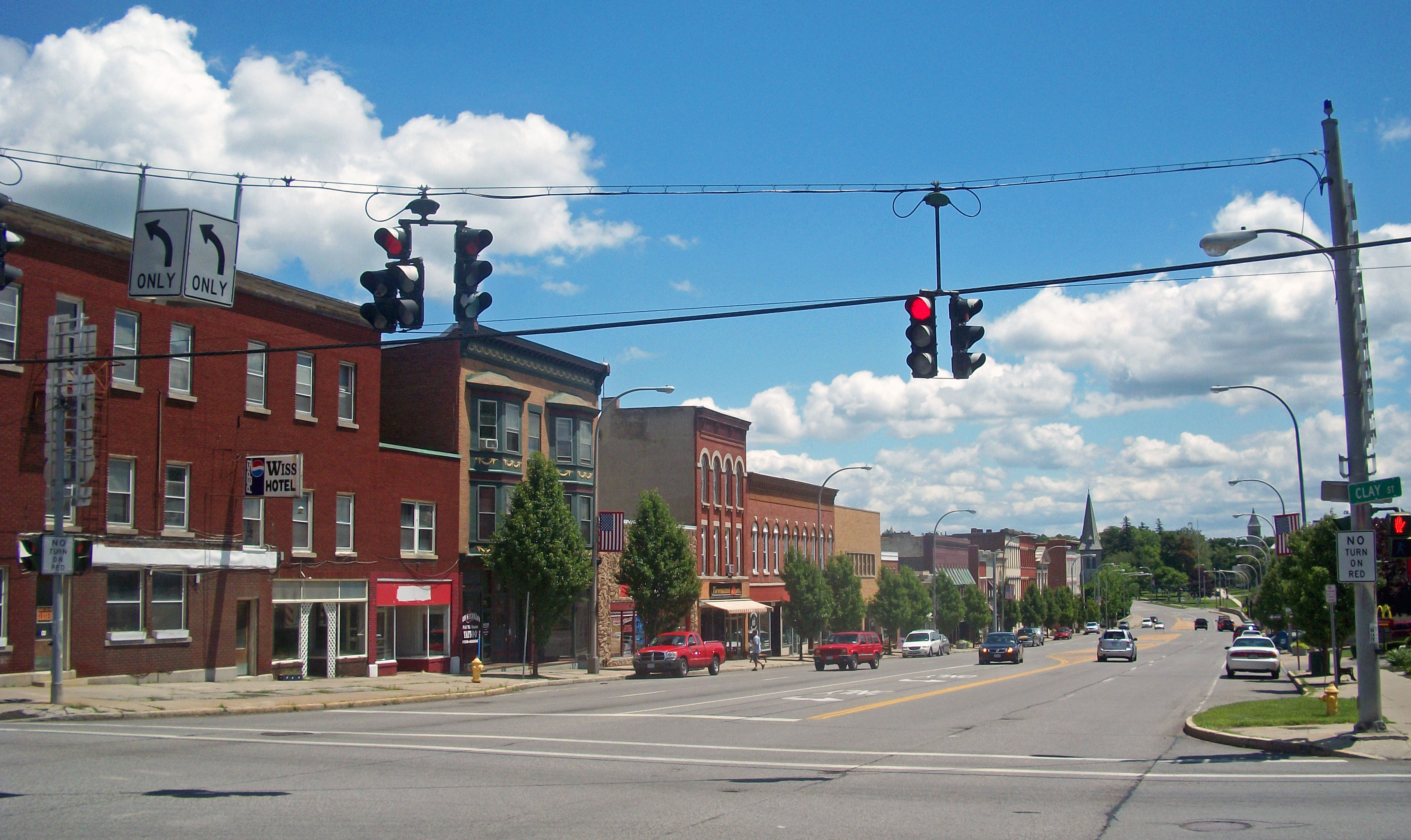 Commercial blocks of Main Street (NY 5) in Le Roy, NY, USA, looking east from junction with Clay and Lake streets (NY 19)